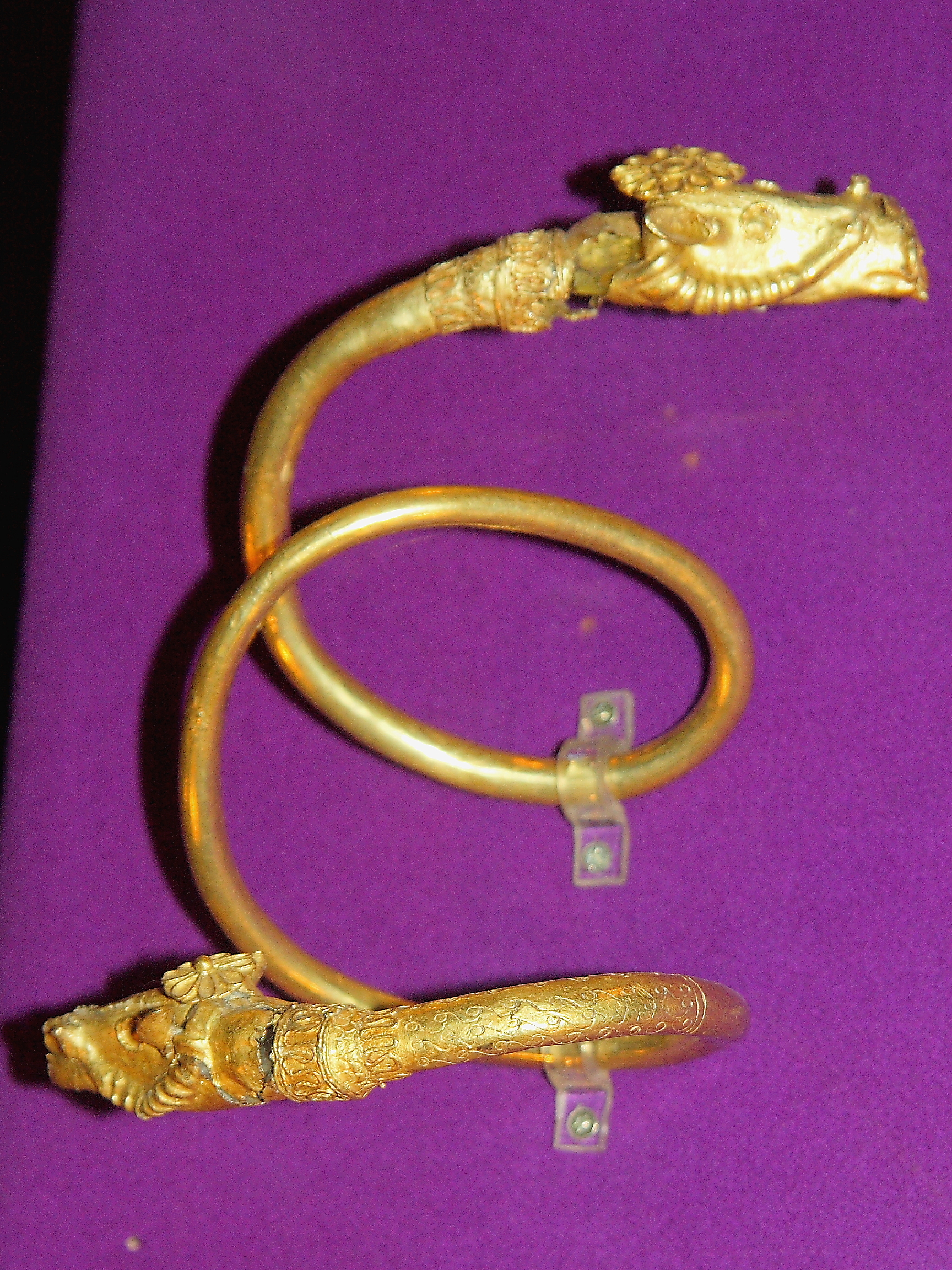 A Dacian bracelet detail